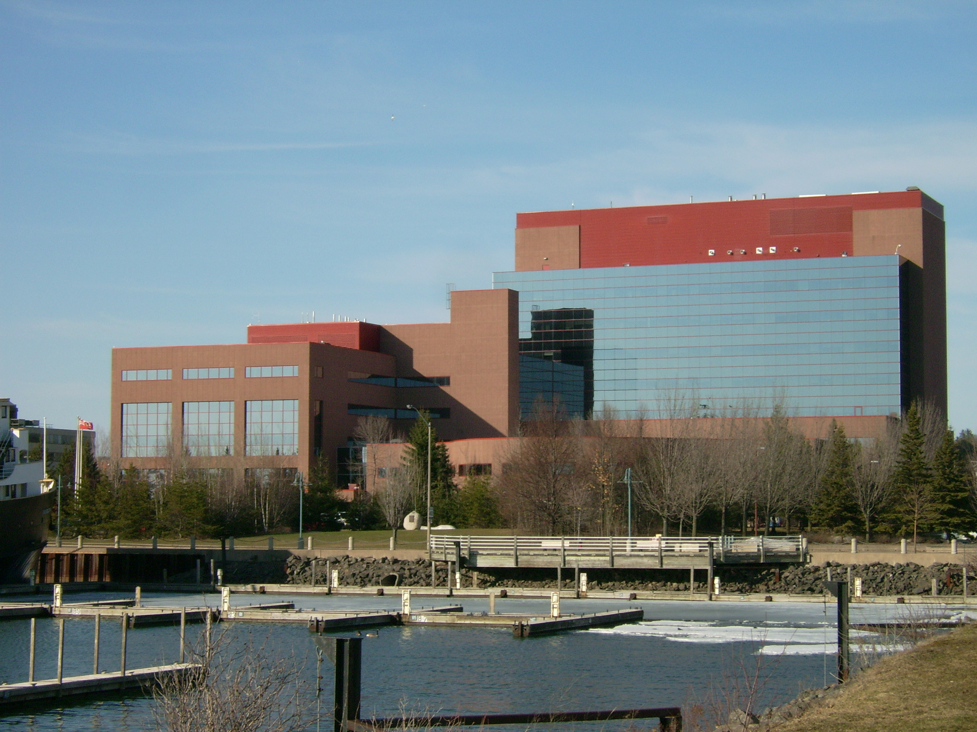 Roberta Bondar Place, Sault Ste. Marie, Ontario.